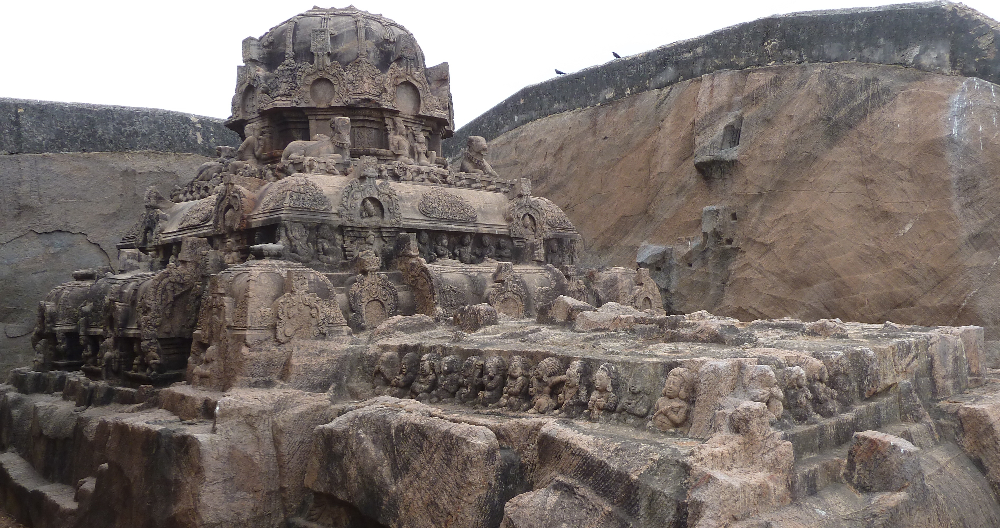 The front view of the unfinished monolithic rock cut temple chiselled during 8th Century found at Kalugumalai.